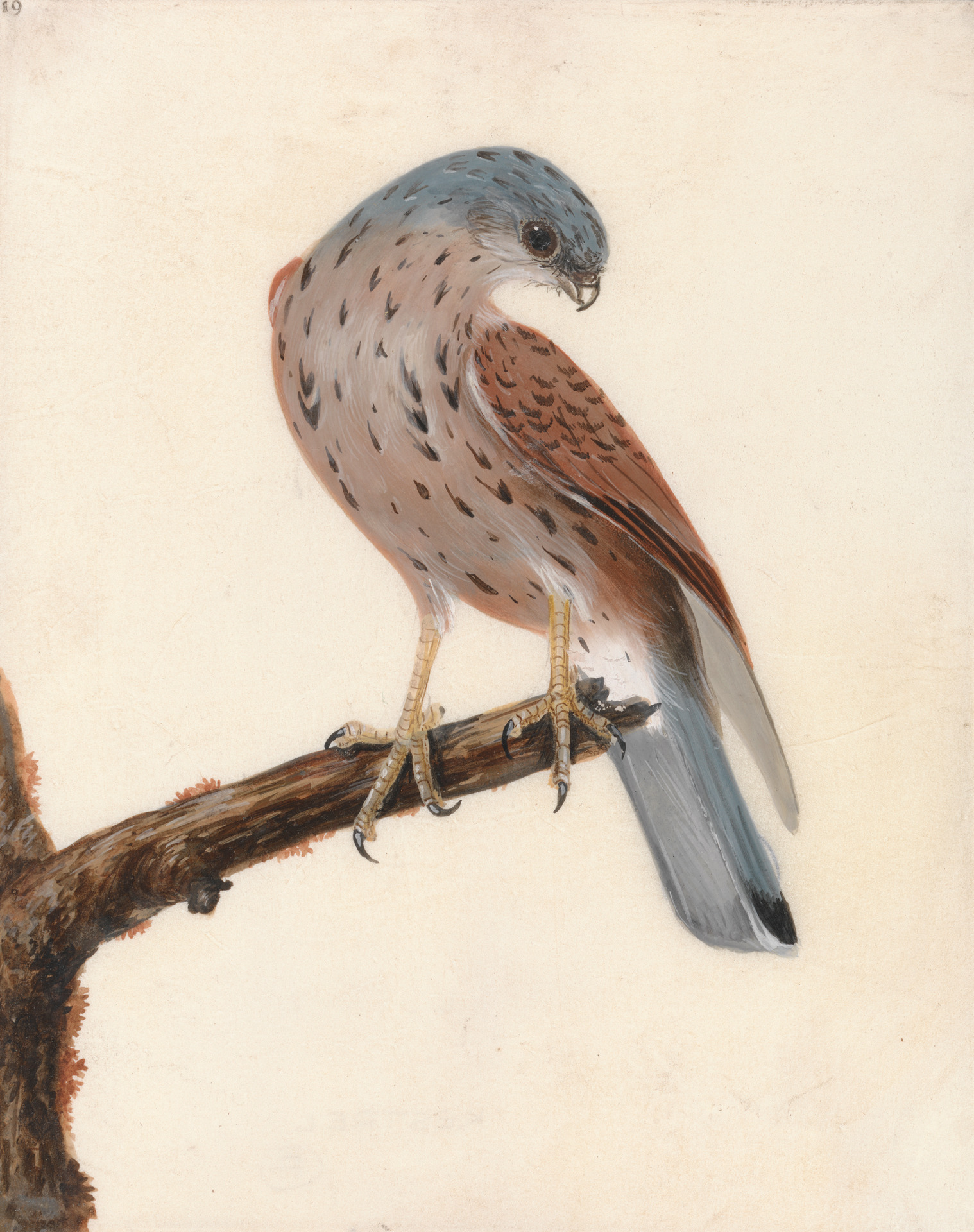 "Falcon: Hen Kestrel," by the British illustrator William Lewin, before 1790. Watercolour and gouache over graphite with gum on vellum with pen and black ink line border. 8 1/4 in. x 6 3/4 in. (21 cm x 17.1 cm). Courtesy of the Paul Mellon Collection, Yale Center for British Art, Yale University, New Haven, Connecticut.